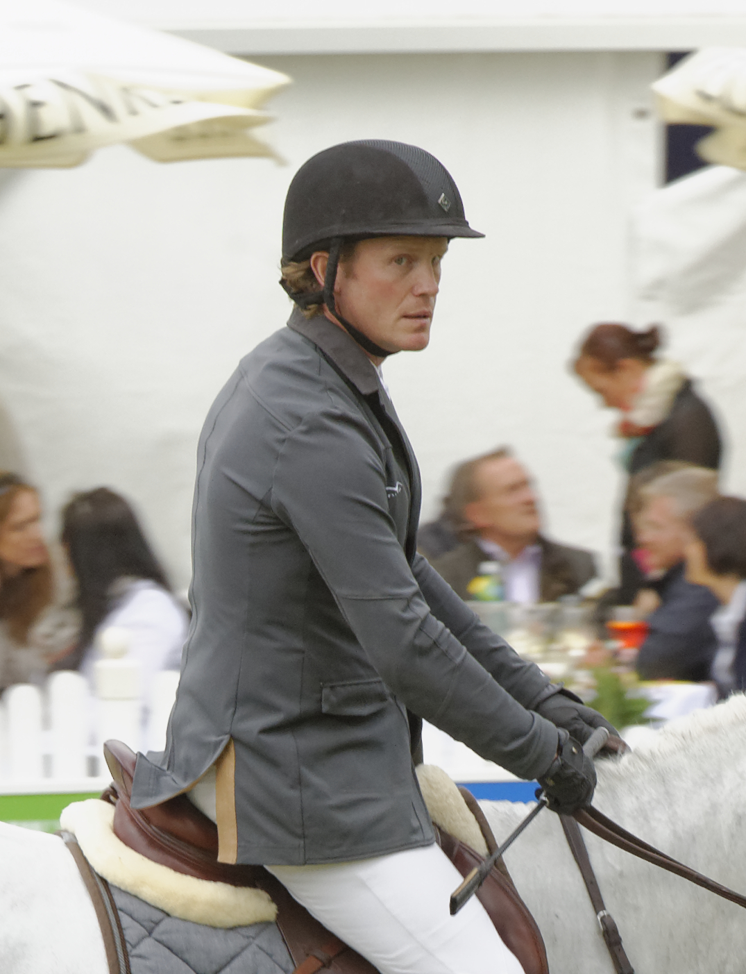 Internationales Pfingstturnier Wiesbaden 2013 The making of this document was supported by the Community-Budget of Wikimedia Germany.